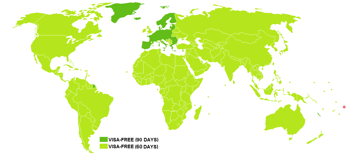 Visa policy of Samoa Samoa Visa-free for 90 days (in any 180-day period) Visa-free for 60 days